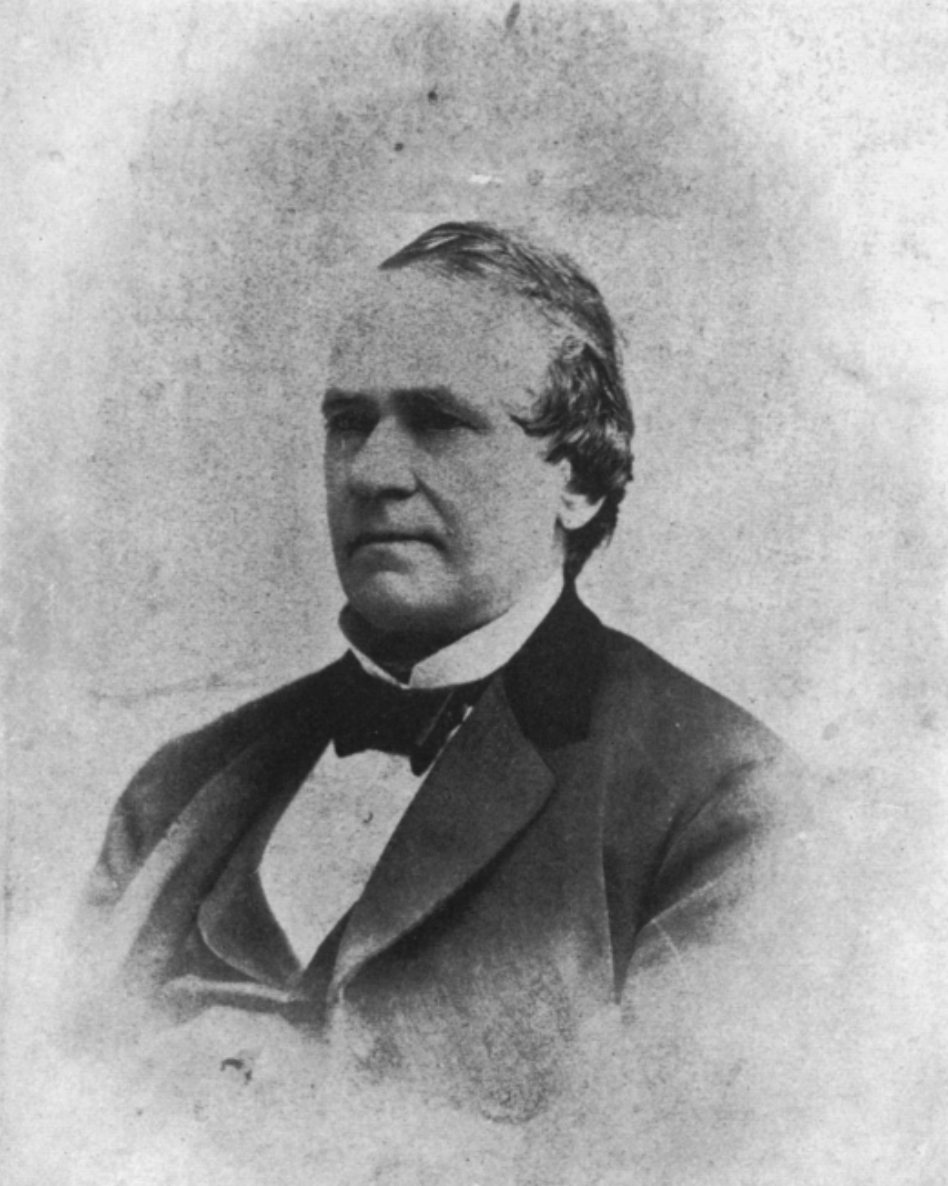 Photo of Lafayette Maynard taken in 1876. The original is in the collection of the California Historical Society.